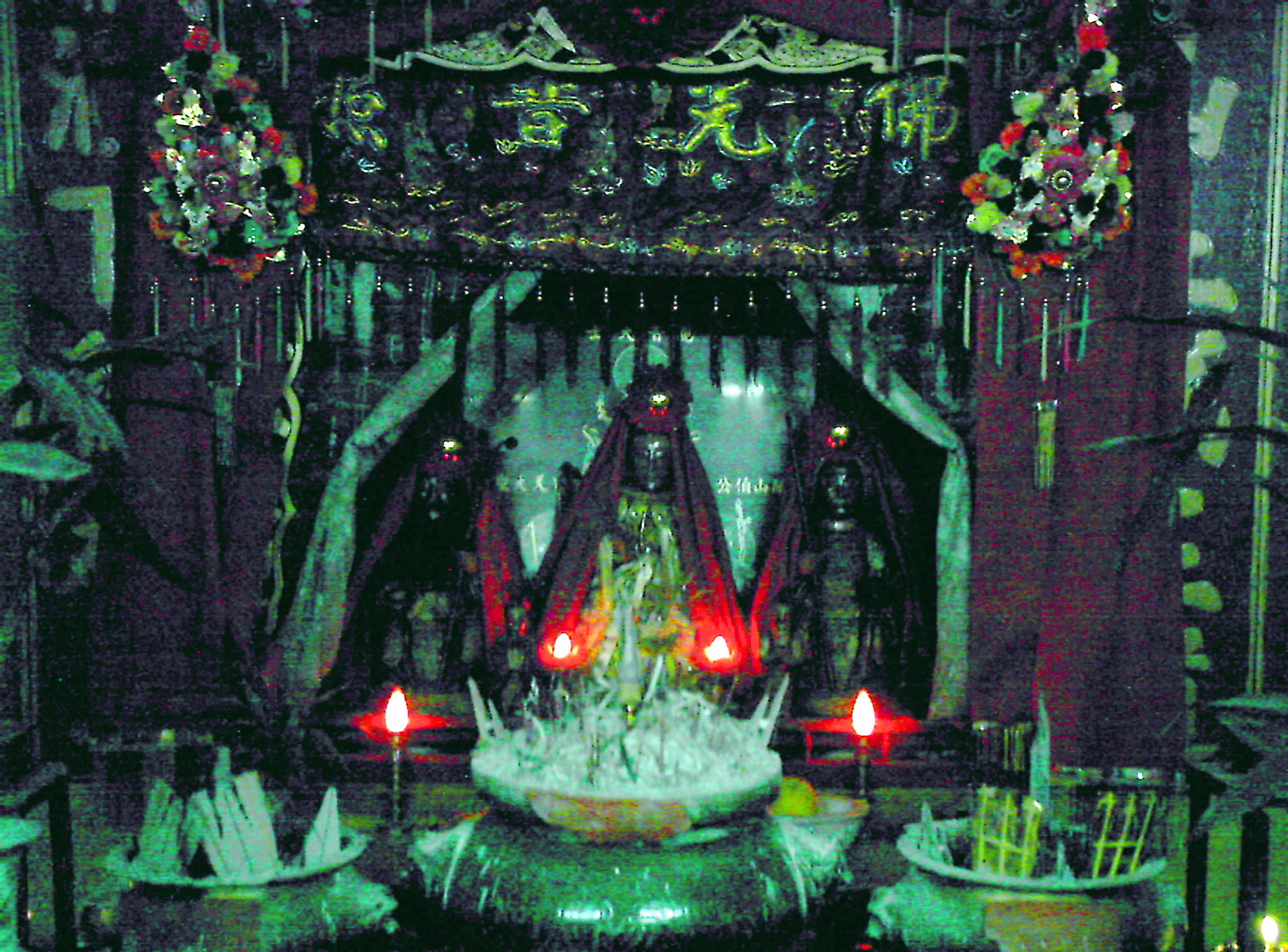 Tse Yeung Tung Statue 中文（香港）: 紫陽洞佛堂的大殿裡的觀音像